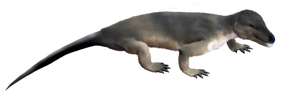 Restoration of Procynosuchus delaharpeae